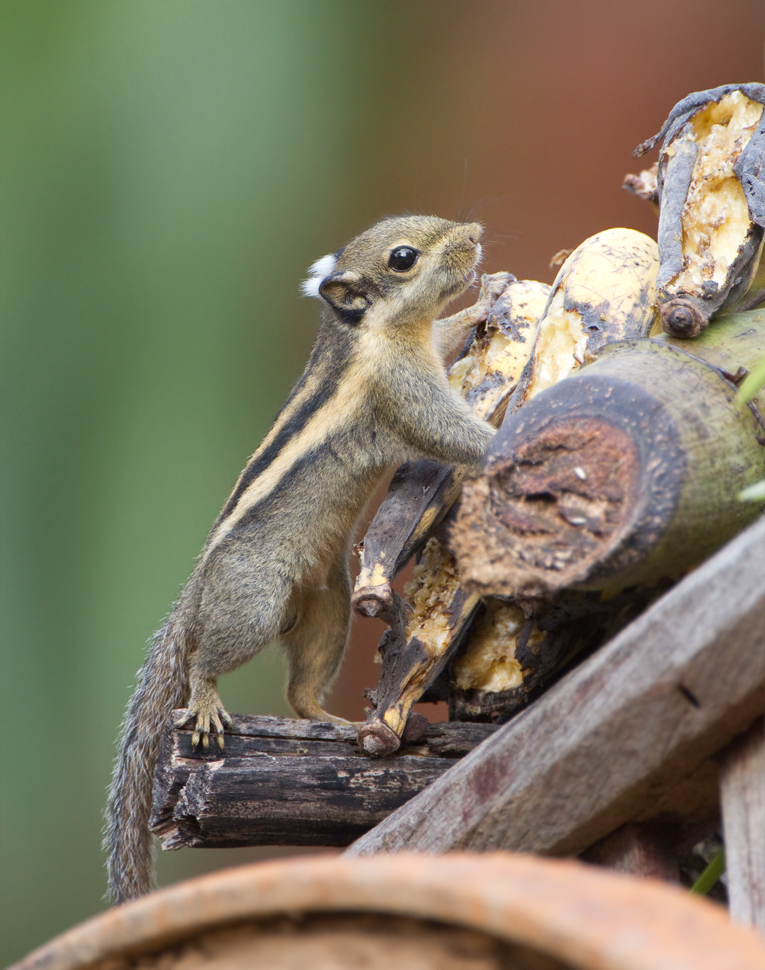 Tamiops mcclellandii, Song Phi Nong, Kaeng Krachan, Phetchaburi, Thailand